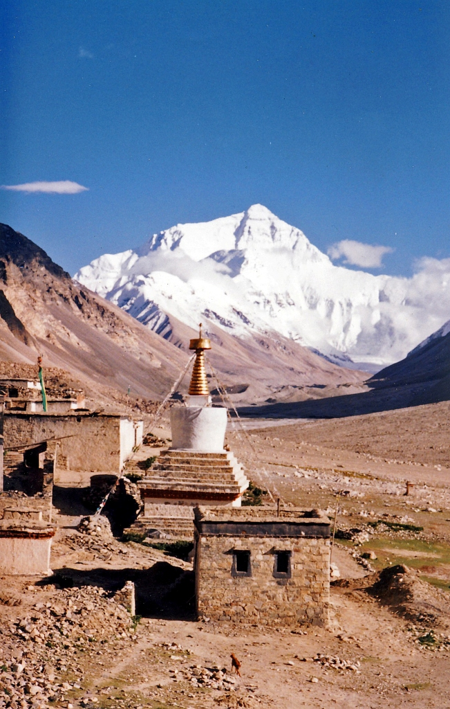 I took this photo myself in 1994.